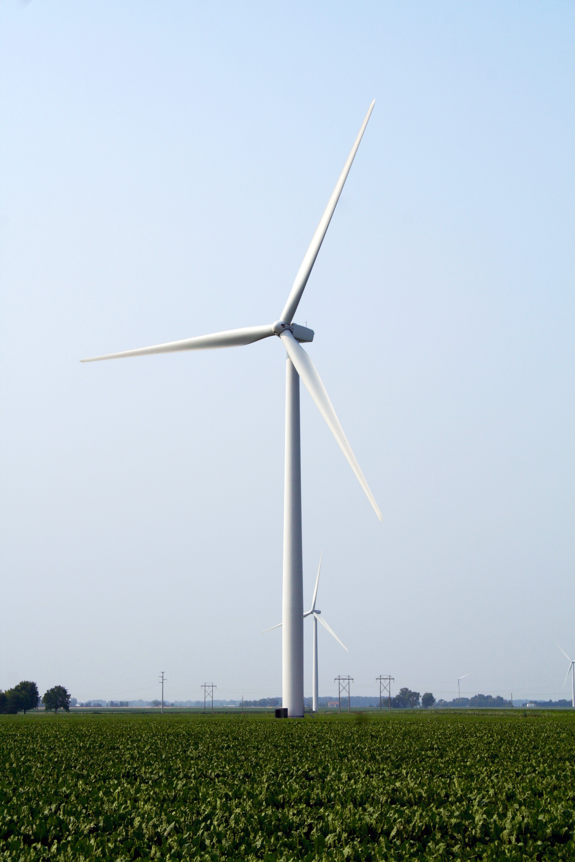 Wind turbines in Tuscola County, Michigan near Reese, Michigan